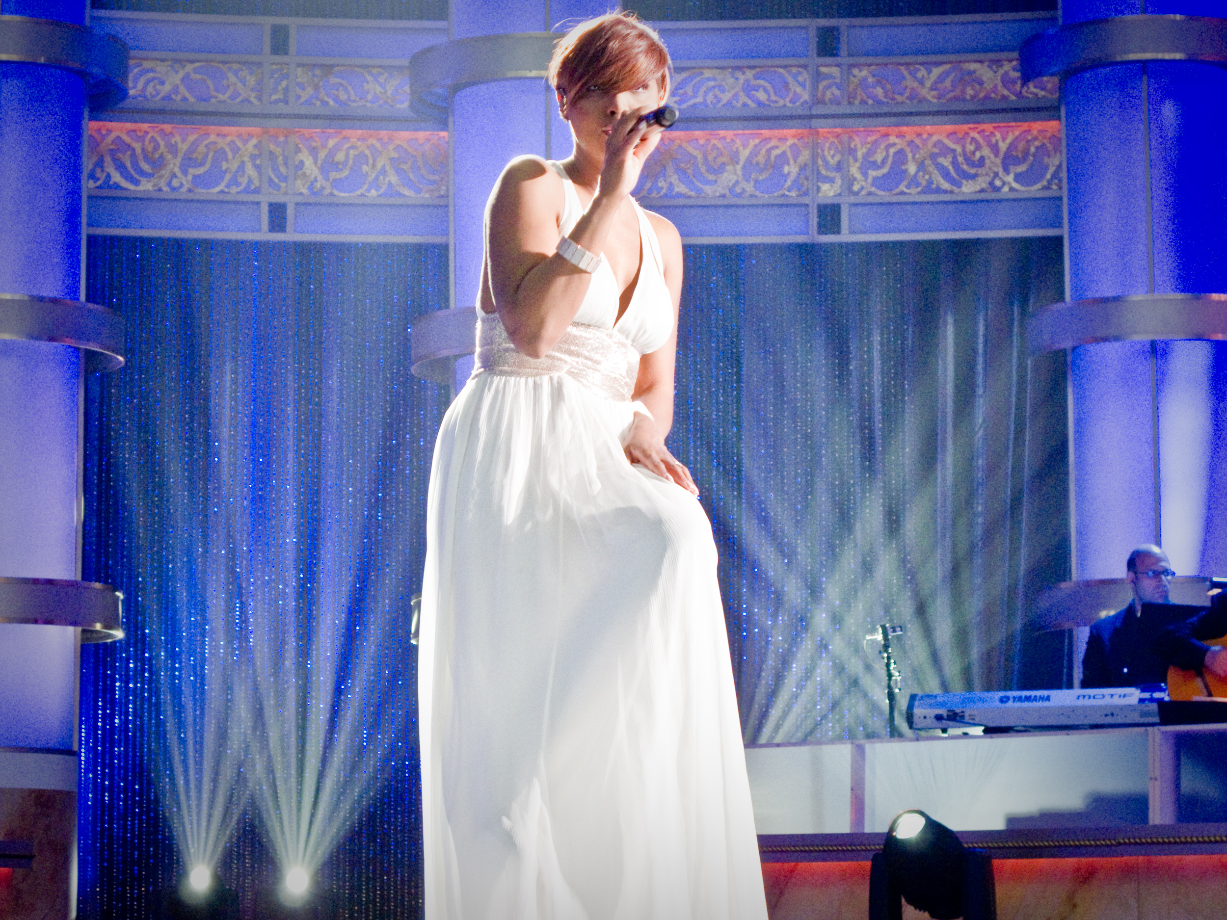 Toni Braxton performing at the Diane Warren Tribute for PBS in April 2010